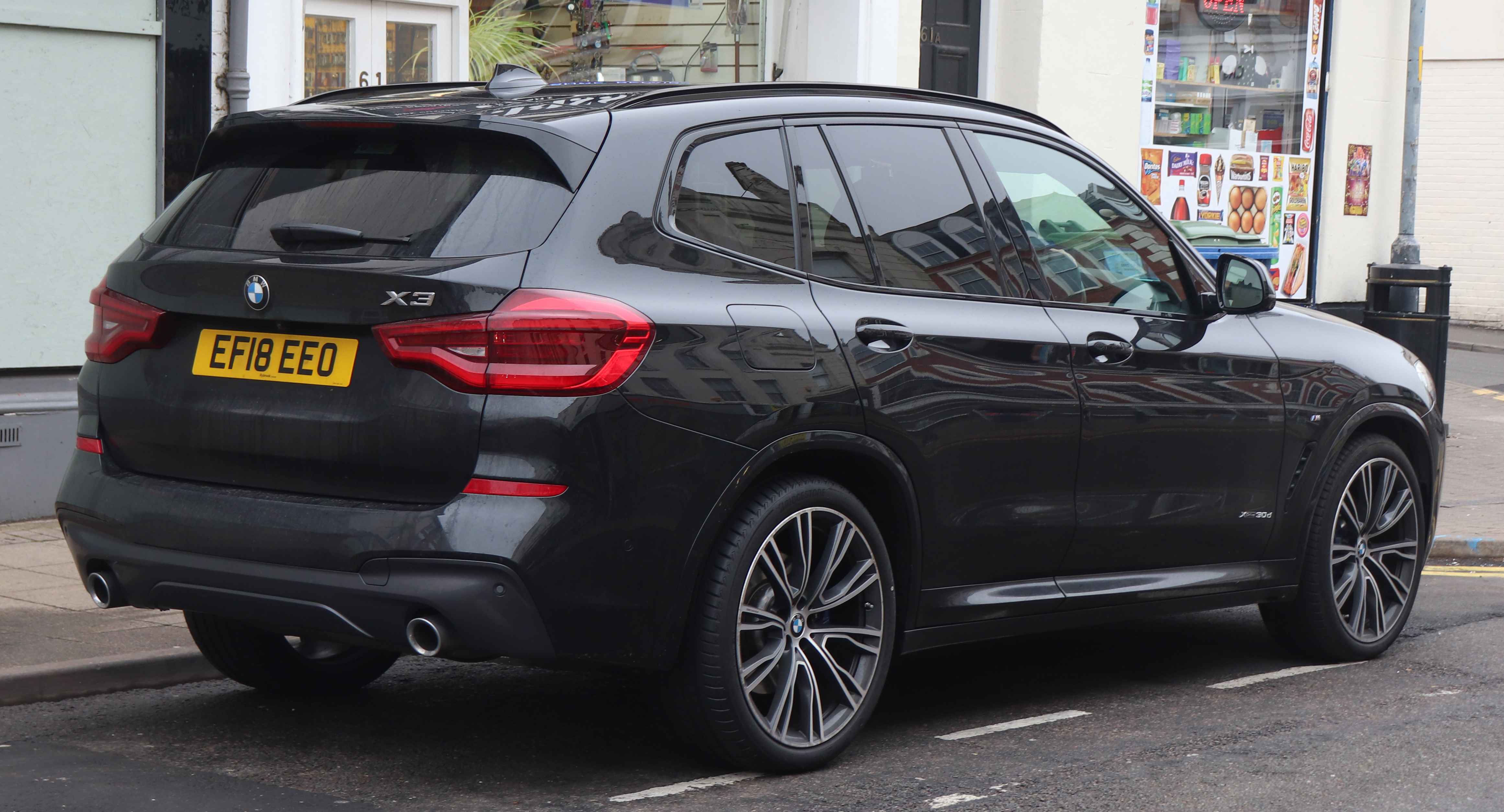 2018 BMW X3 xDrive30d M Sport Automatic 3.0 Rear Taken in Leamington Spa